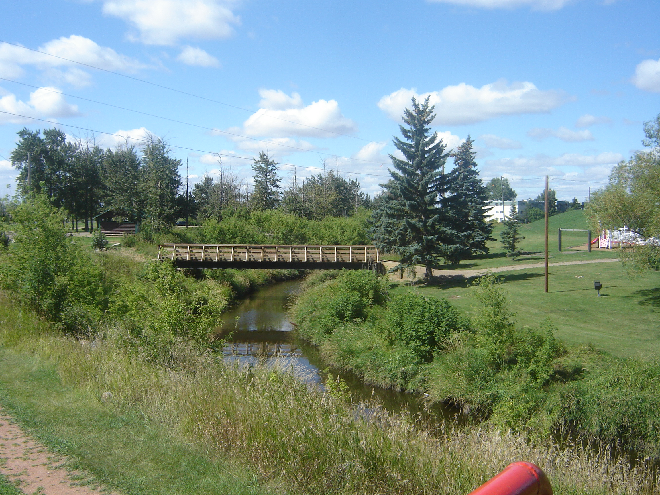 Vermillion River at Vegreville, Alberta